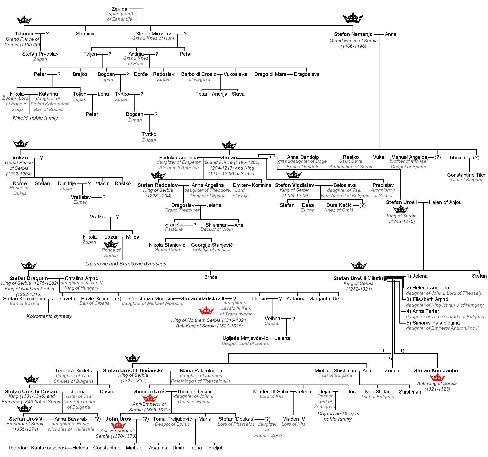 Family tree of the Nemanjic dynasty of medieval Serbia Sources: Charles Cawley, Medieval Lands Project - Serbia - Grand Zupan of Serbia, 1166-1217, Nemanjic dynasty, Foundation for Medieval Genealogy [1] John V.A. Fine - The Late Medieval Balkans: A Critical Survey from the Late Twelfth Century to the Ottoman Conquest - The University of Michigan Press.(1994) Dušan Spasić, Aleksandar Palavestra, Dušan Mrđenović - Rodoslovne tablice i grbovi srpskih dinastija i vlastele - "Bata", Belgrade (1991)